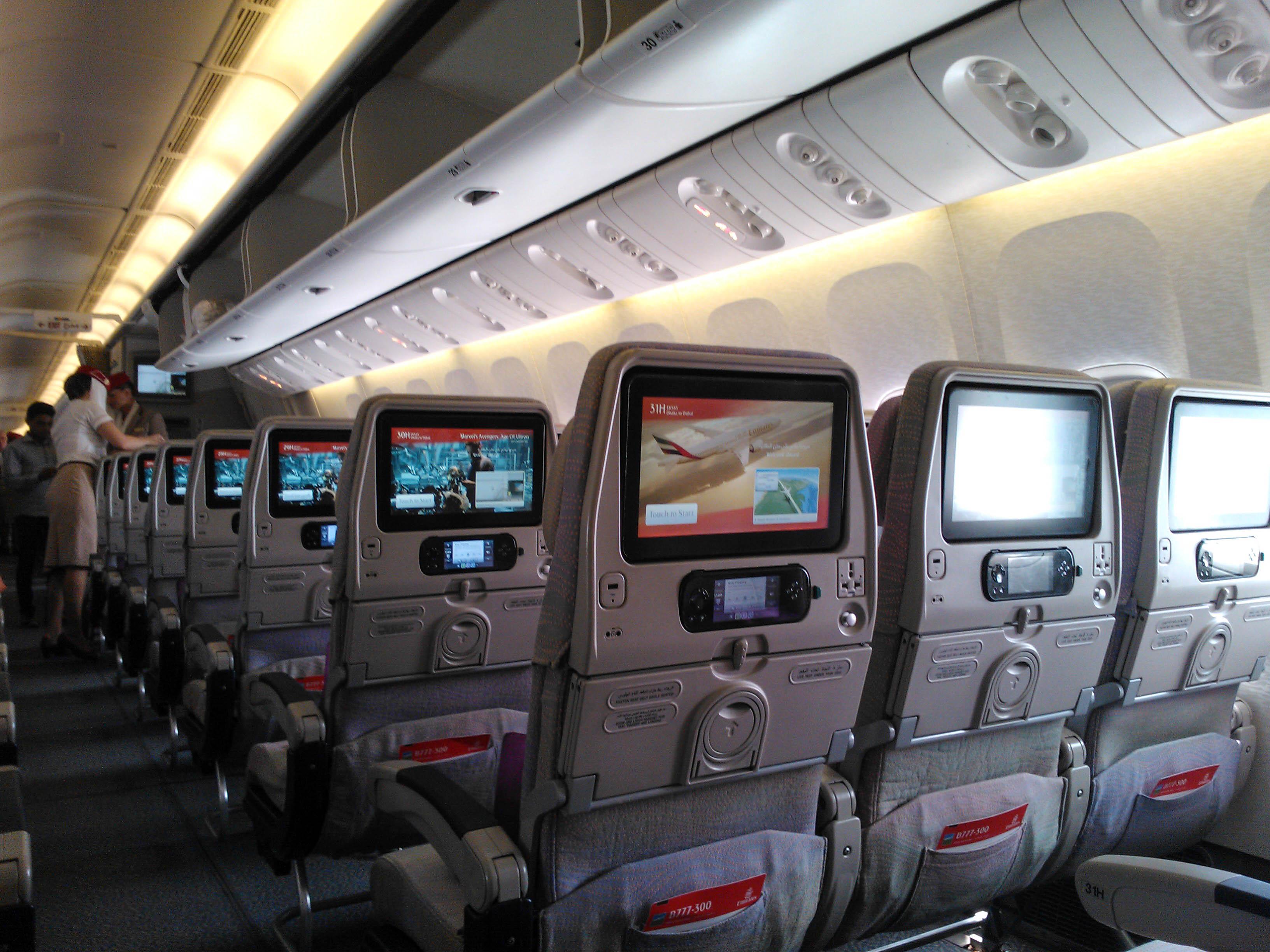 Economy class cabin of Emirates Boeing 777-300ER (A6-EBF) which was operating EK583